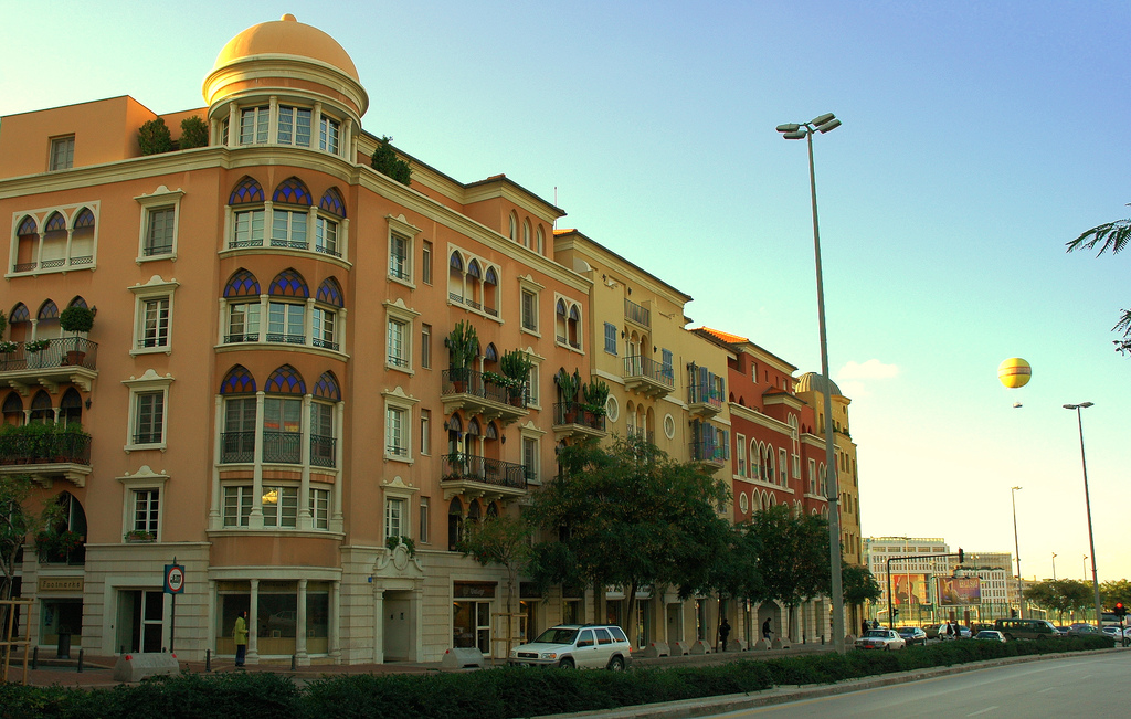 Typical Lebanese architecture in the BCD